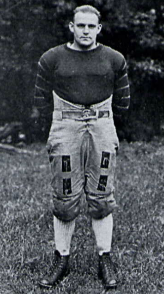 Photograph of football player James D. Bond, Jr.